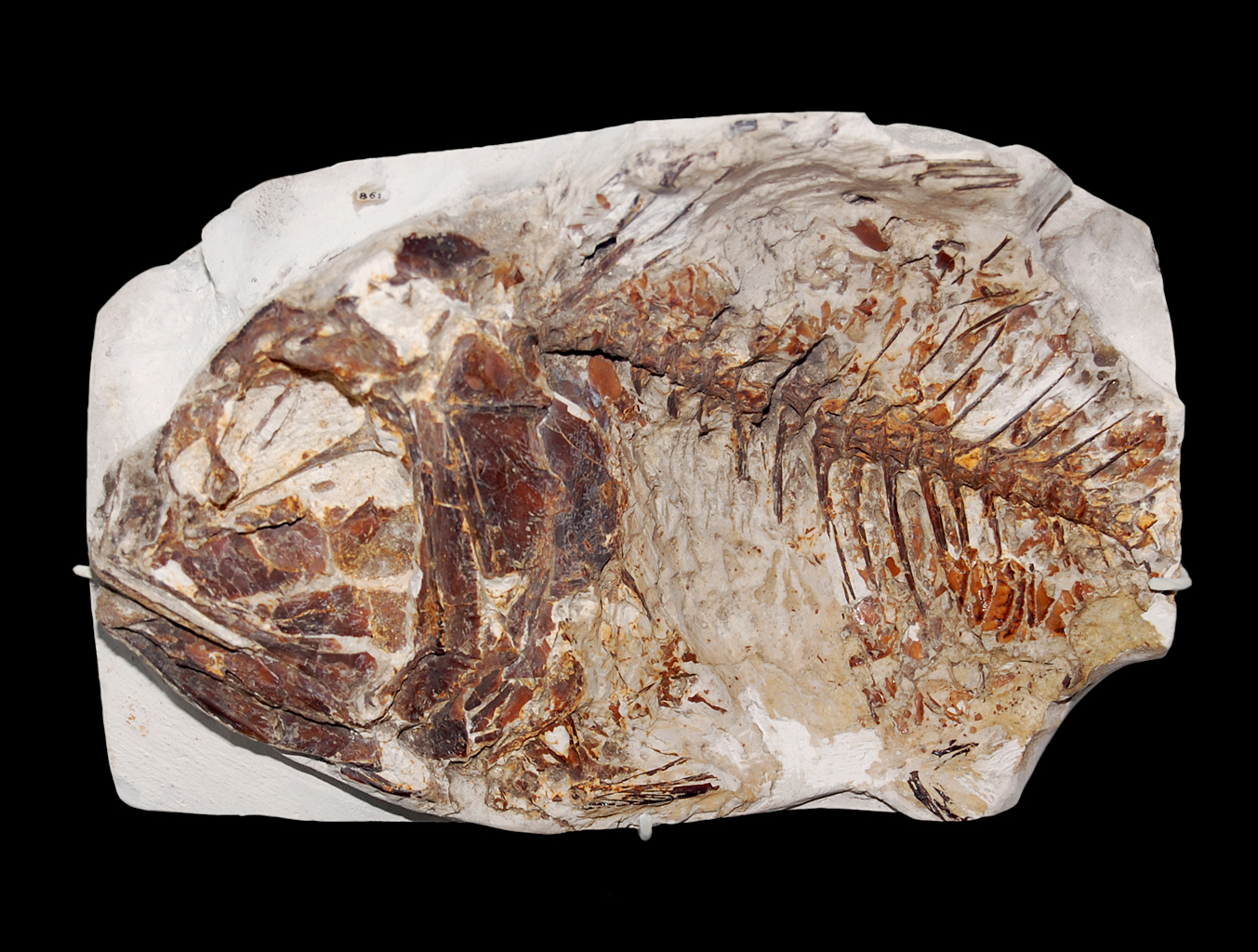 Fossil in the Oxford University natural history museum